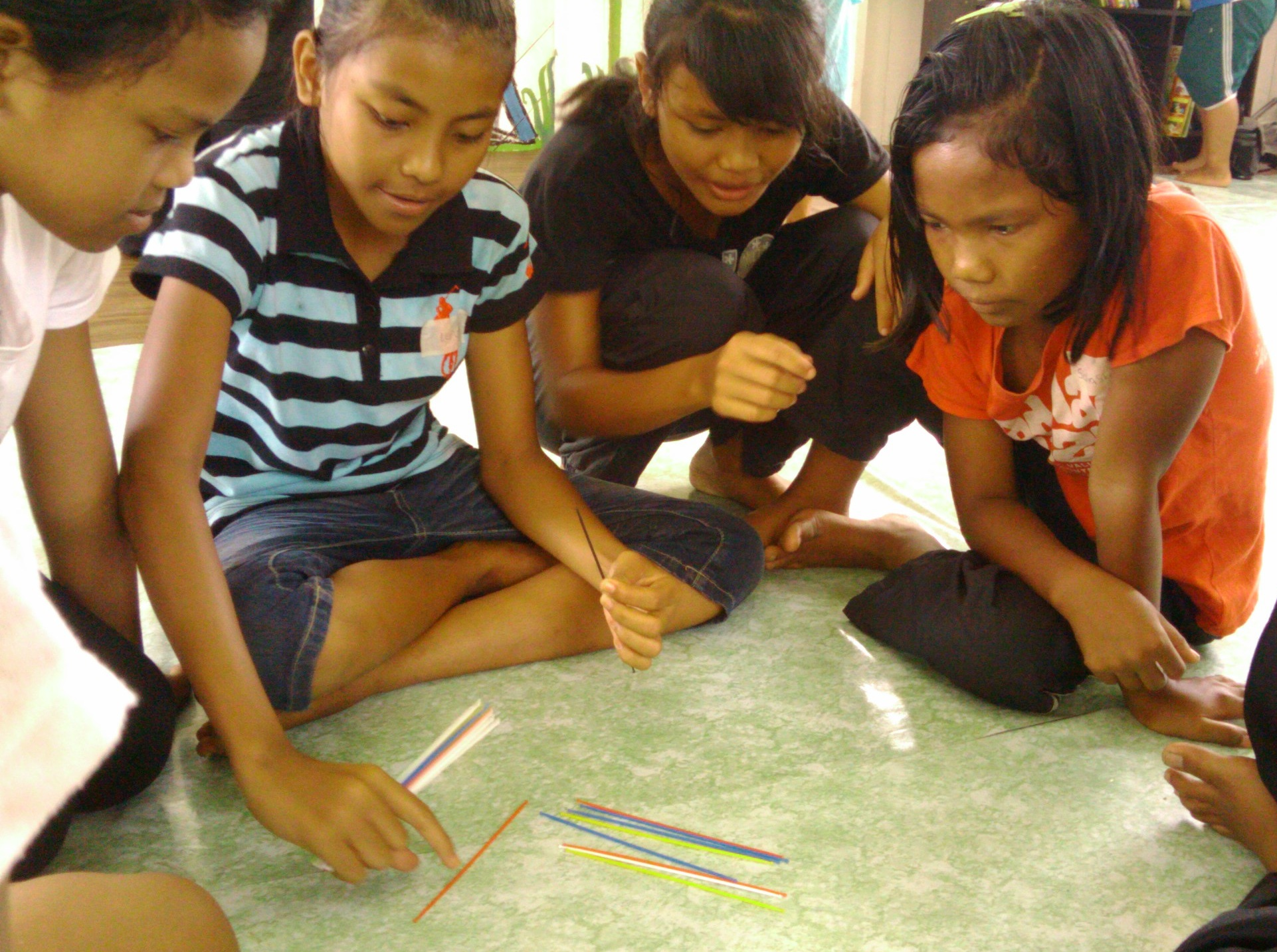 Jakun teenagers playing pick-up sticks in the community library, Kampung Punjut, Johor, Malaysia